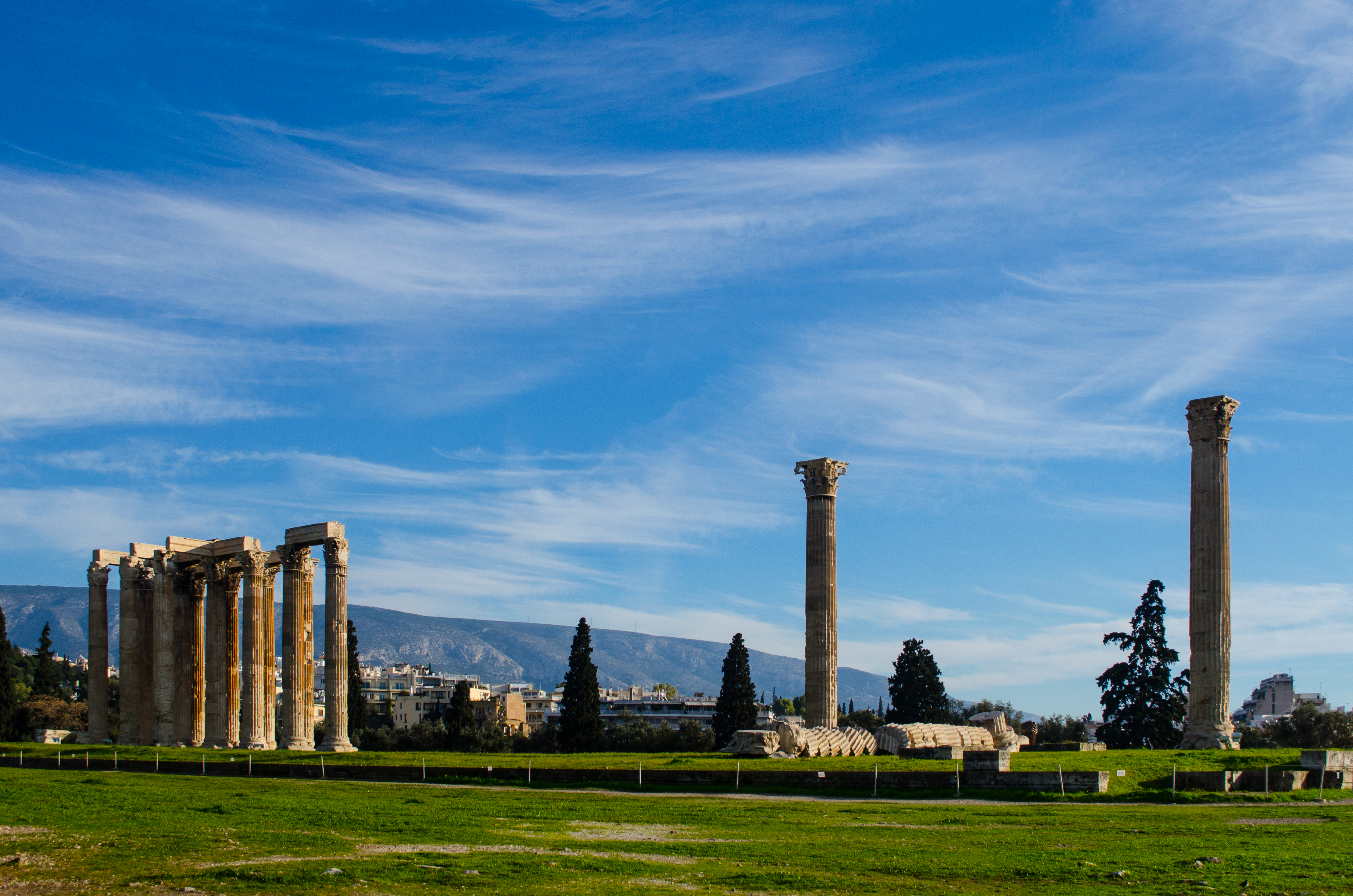 Temple of Olympian Zeus, Athens